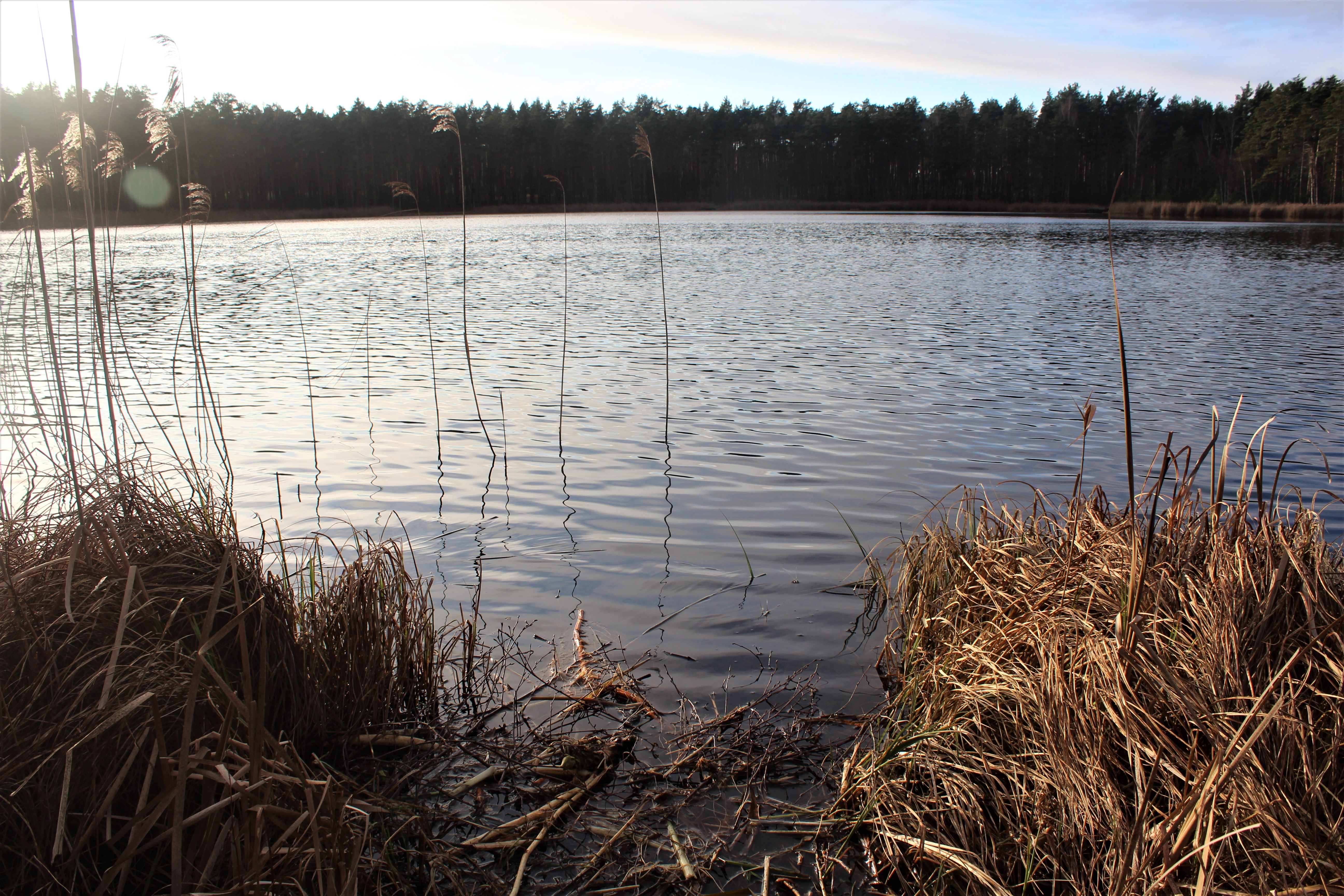 Lake Maku ezers near Rīga, Latvia, from S coast, 31-12-2019